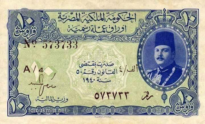 King Farouk 1940